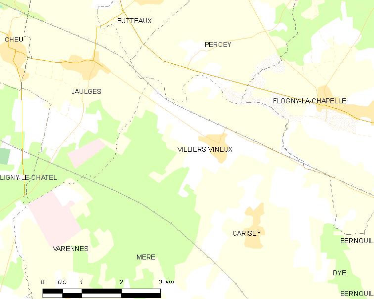 Map of French municipality Villiers-Vineux